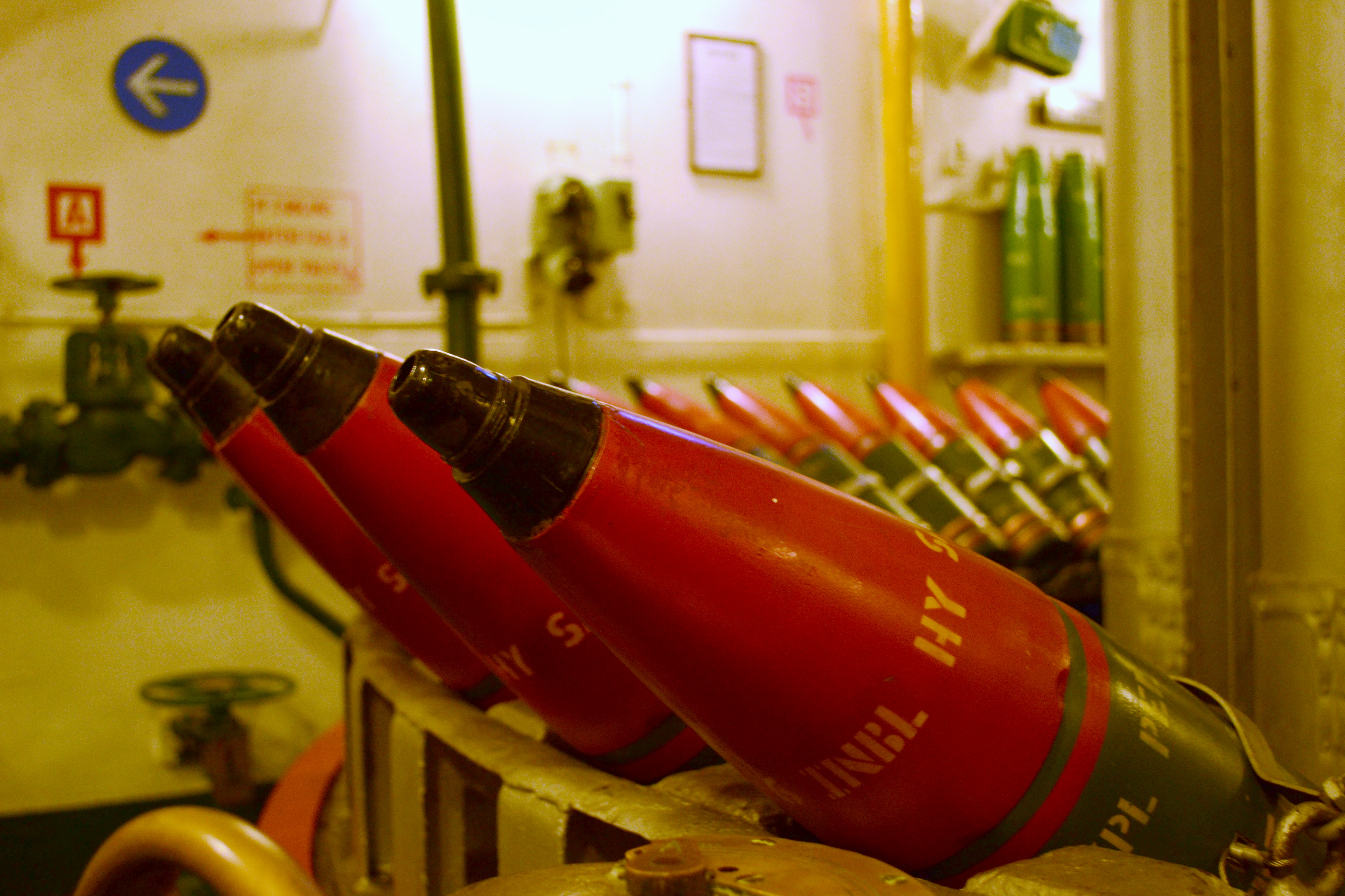 A rack of 6-in shells in the magazine below A Turret of the cruiser HMS Belfast.